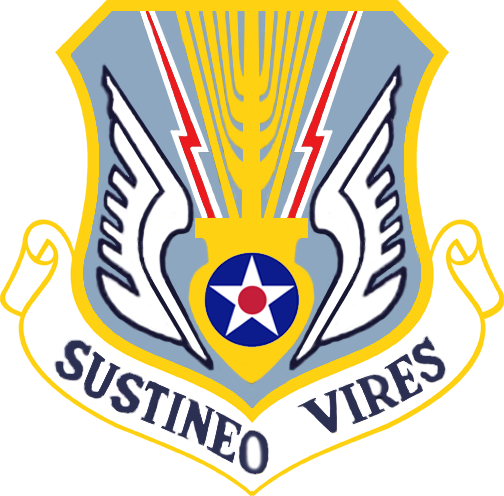 United States Air Force 7217th Air Division emblem. Made with Photoshop.